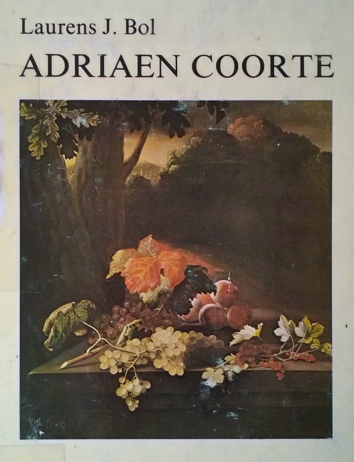 Cover illustration of catalog raisonné of works by Adriaen Coorte by Laurens J. Bol, 1977